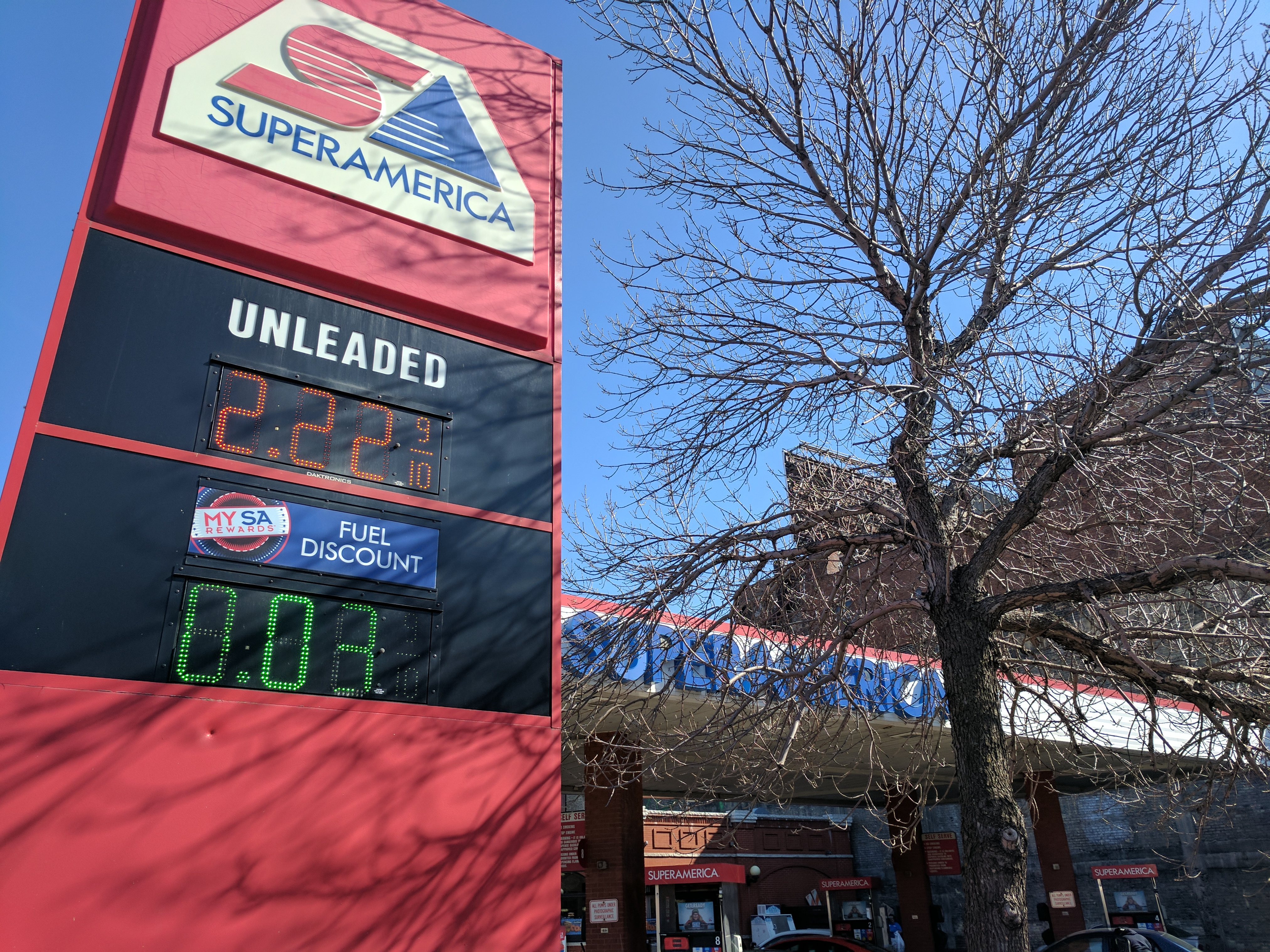 Photograph of a SuperAmerica gas station in downtown Saint Paul, MN